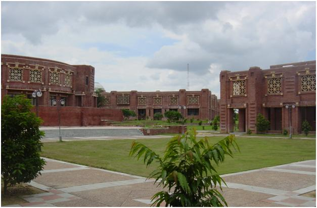 IIM Lucknow. Breakout area outside the PGP Block, IIM Lucknow. IIM Lucknow campus. ಕನ್ನಡ: IIM ಲಕ್ನೊ.